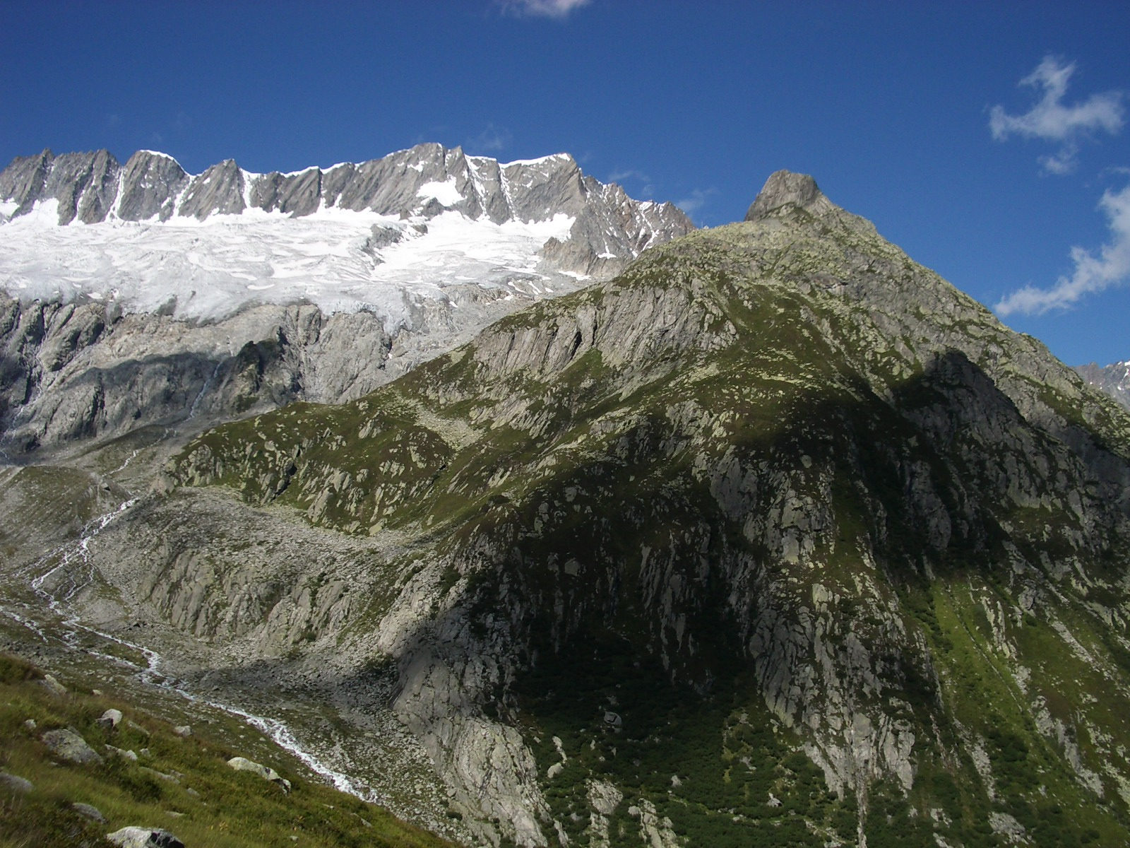 Dammahütte UR, Switzerland, the hut is at the horizon between the Dammastock (left) and the other mountain top on the right side.